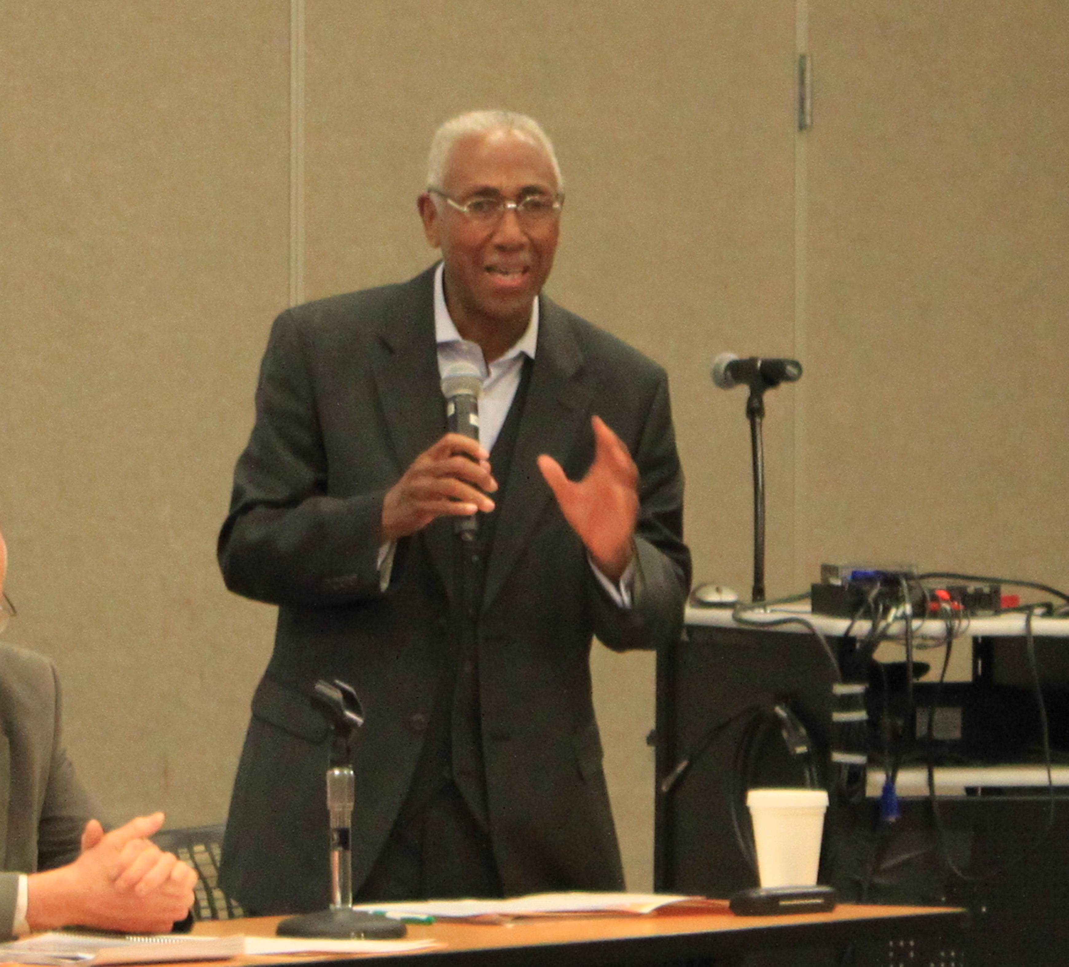 Michigan State Representative David E. Rutledge addressing a Town Hall Meeting at Washtenaw Community College, March 26, 2012.